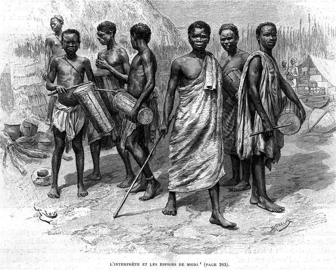 Msiri's interpreter and spies in the Stairs Expedition's camp at Bunkeya. During a stand-off in negotiations, this group arrived in the expedition's fortified camp with a message from Msiri (note the tent and palisade in the background, right). The drummers kept playing all the time, and the expedition only found out later these were talking drums, and the drummers were sending information about the camp's defences, number of armed men and their deployment to Msiri.